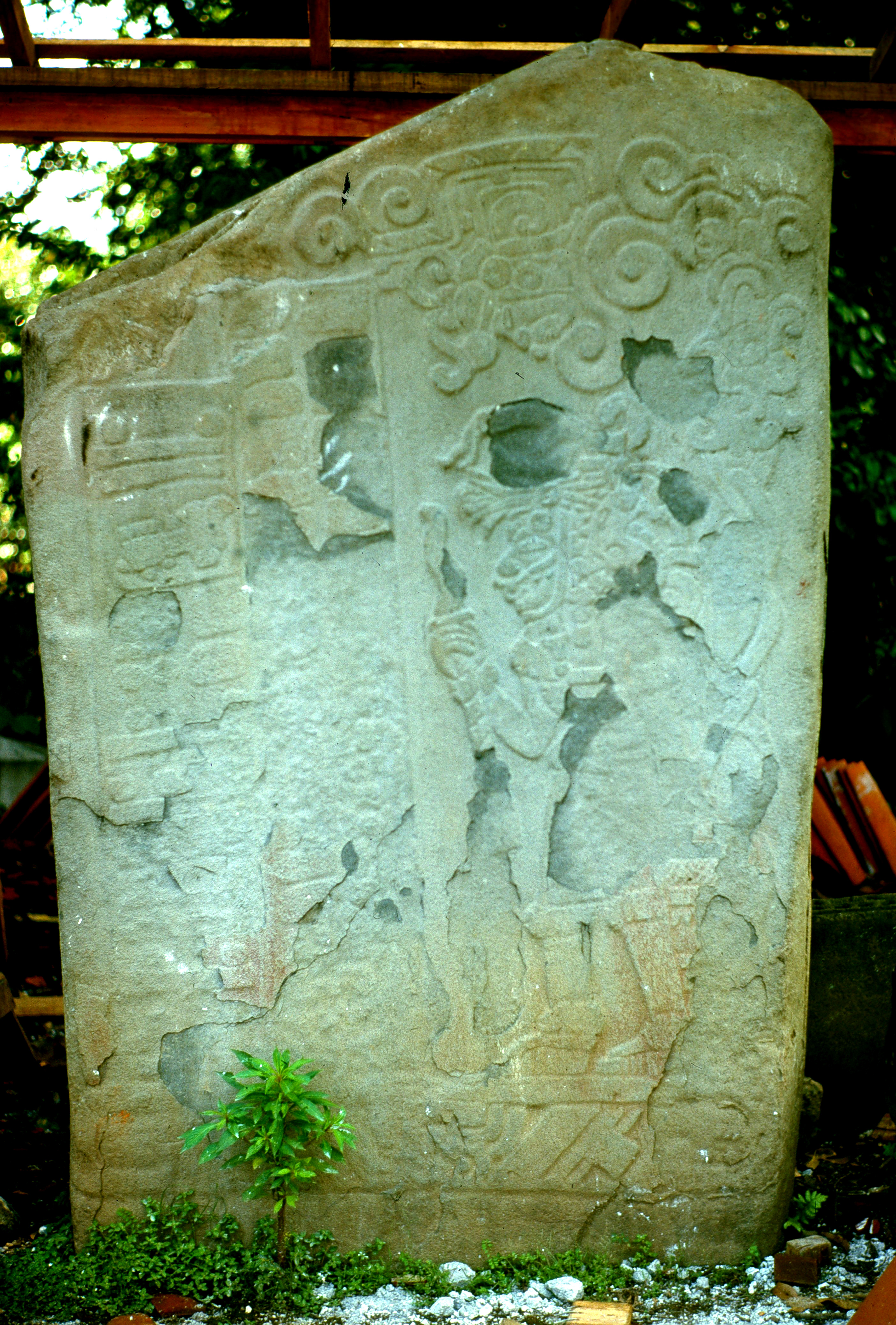 El Baúl, Cotzumalguapa, Guatemala, Stela 1